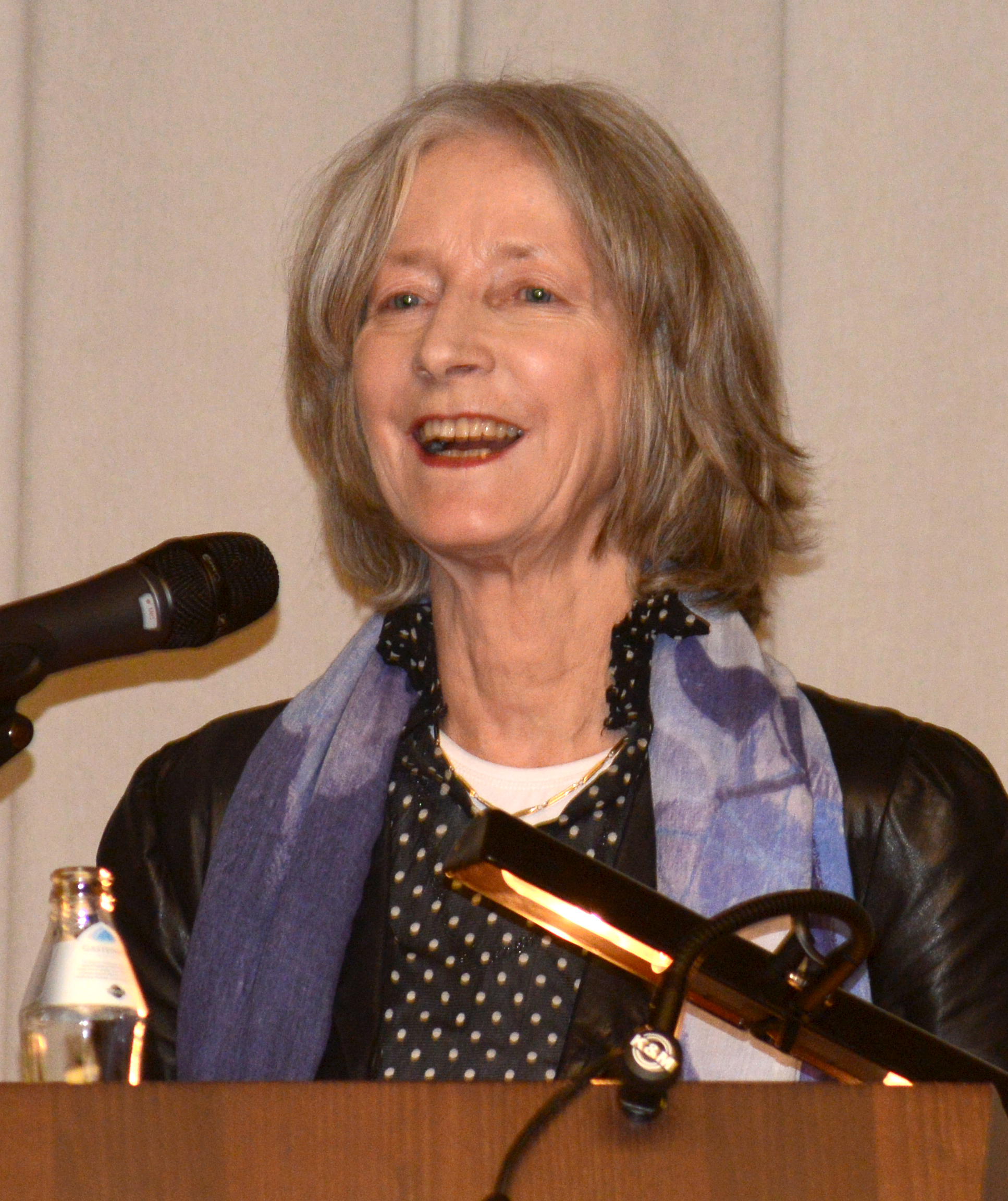 Nike Wagner at a lecture in Linz, Austria.